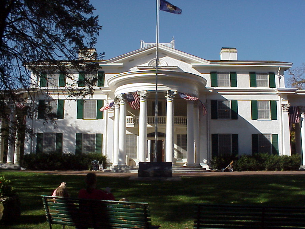 Arbor Lodge in Nebraska City, Nebraska. It was the home of J. Sterling Morton. Photo taken by John P. Workman, Jr.